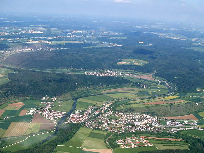 Dollnstein and Altmühl valley (aerial image)